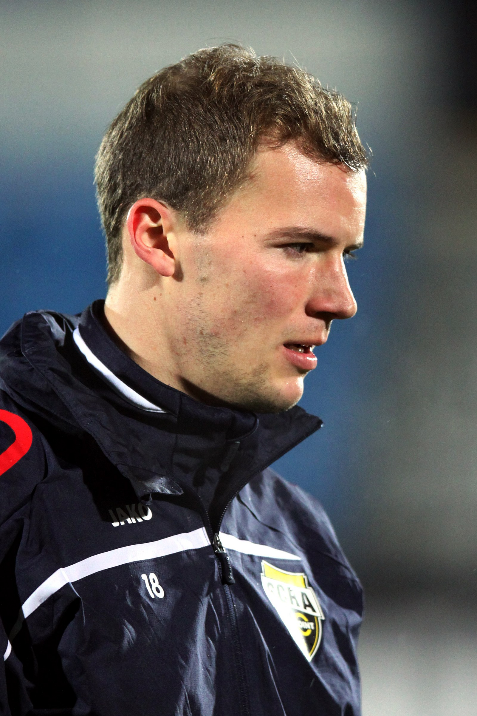 2014–15 Austrian Football Bundesliga: SC Wiener Neustadt vs. SC Rheindorf Altach (2:0 / 0:0) at 2014-12-06 in the Stadion Wiener Neustadt. – The photo shows en: (SC Wiener Neustadt/SC Rheindorf Altach). The making of this work was supported by Wikimedia Austria. For other files made with the support of Wikimedia Austria, please see the category Supported by Wikimedia Österreich.